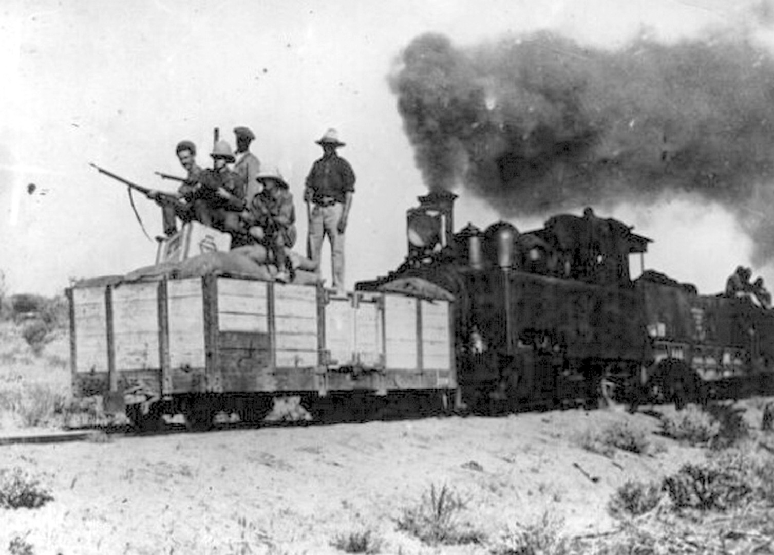 Class NG3 locomotive at work in German South West Africa during the First World War, presumably between Usakos and Tsumeb/Grootfontein.